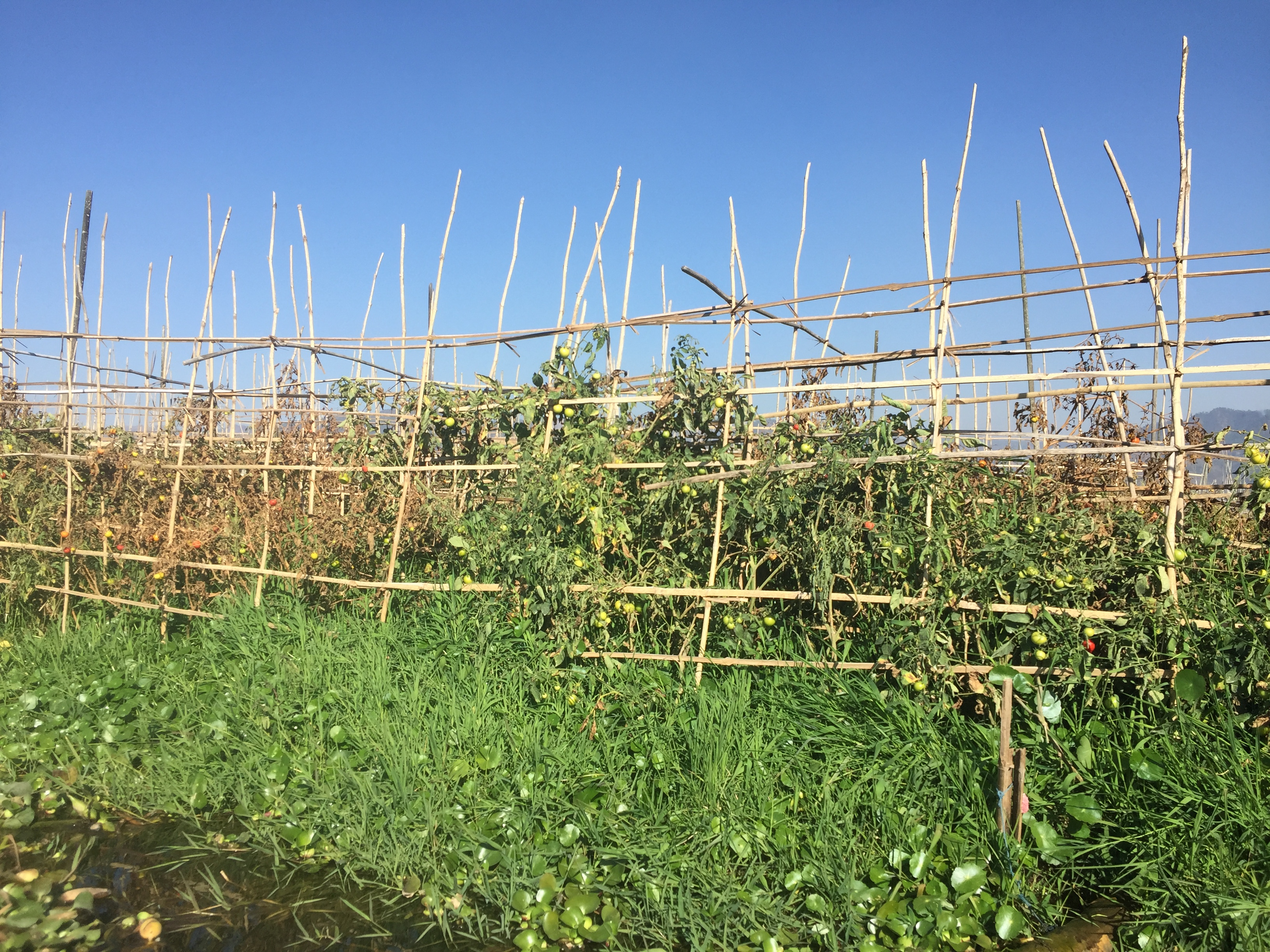 Myanmar water farming